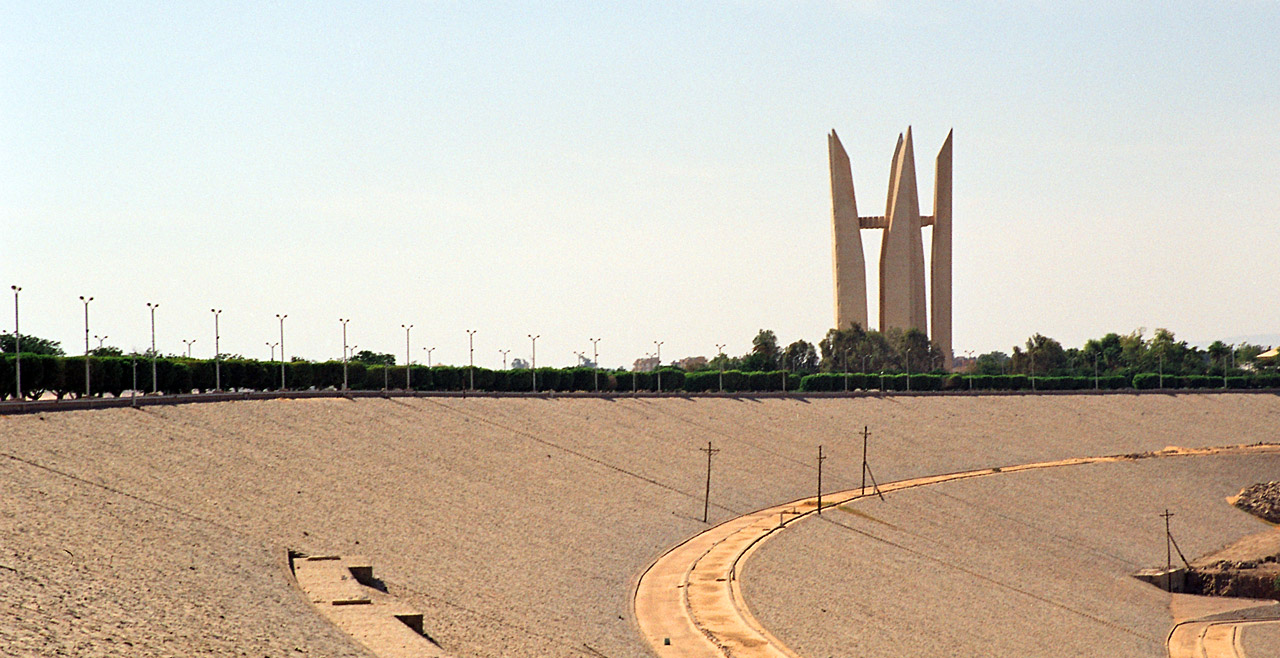 Aswan High Dam, Egypt. A view from the vantage point in the middle of High Dam towards the "Lotus Flower" tower. This tower was built as an Egyptian-Soviet friendship monument to underline the fact that Soviet Union helped in construction of High Dam. October 2004.